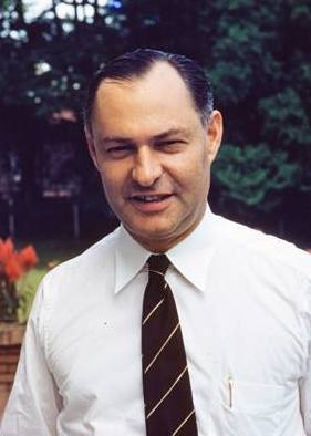 Australian public servant Keith Waller in Singapore in February/March 1958